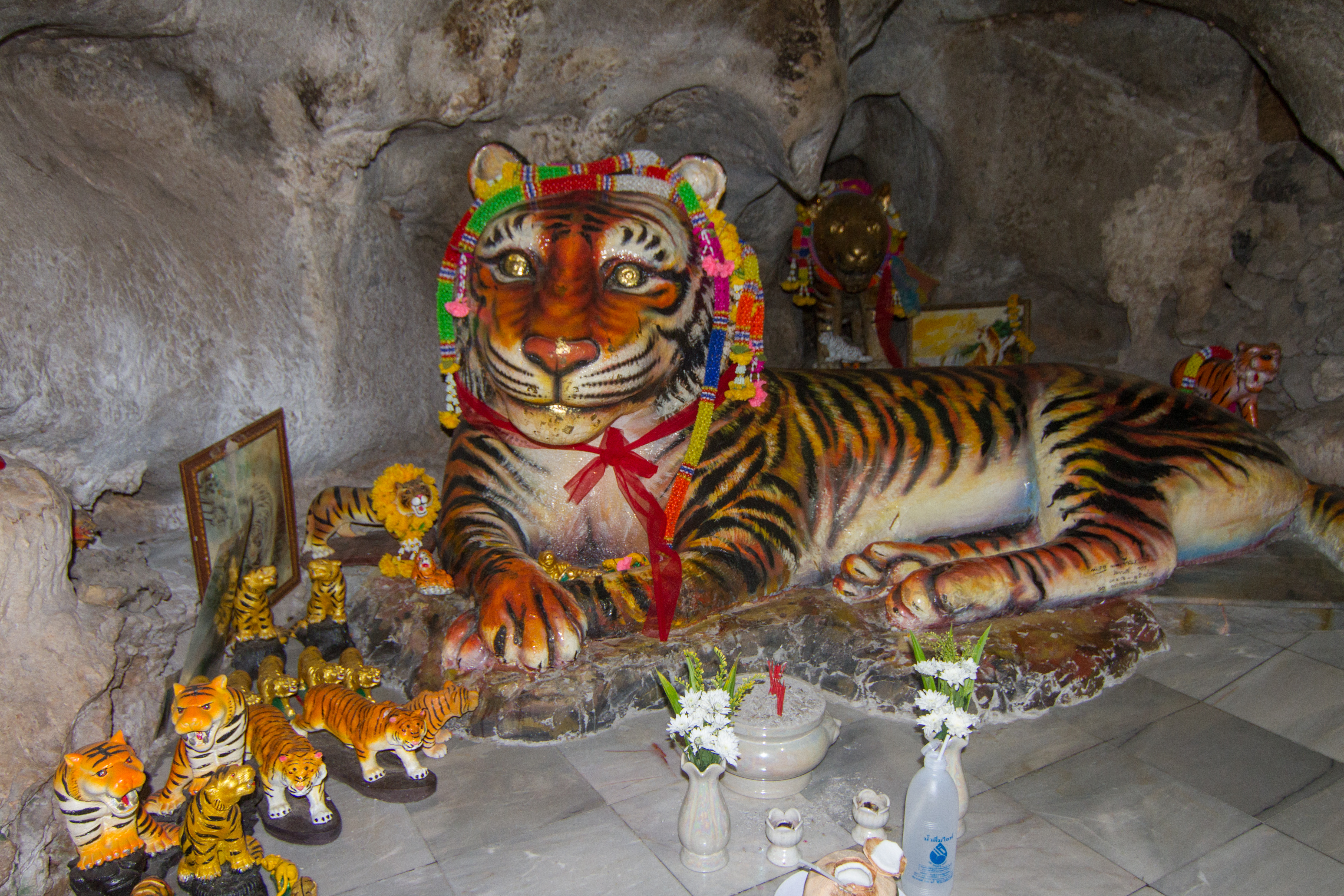 Tiger Cave Temple (Wat Tham Suea), Krabi, Thailand